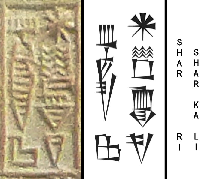 Sharkalisharli cuneiform